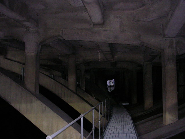 Under Merseyway The River Mersey runs under Stockport town centre and the Merseyway Shopping Centre, which is built on these columns which rise from the riverbank. This walkway runs the length of the riverbank beneath the town.